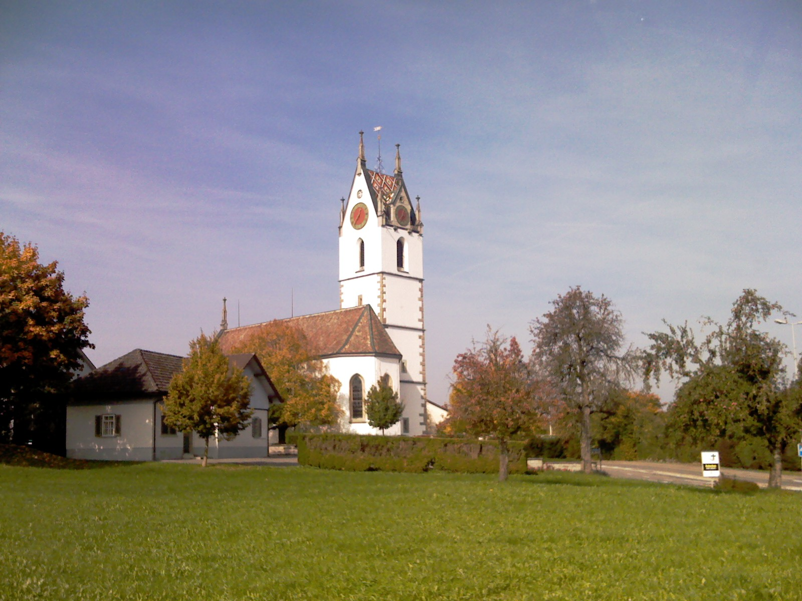 Church of Maur, canton of Zürich, SwitzerlandEsperanto: Preĝejo de Maur, Kantono Zuriko, Svislando